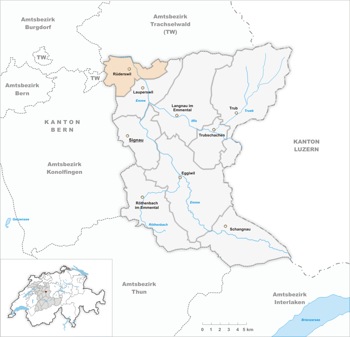 Municipality Rüderswil